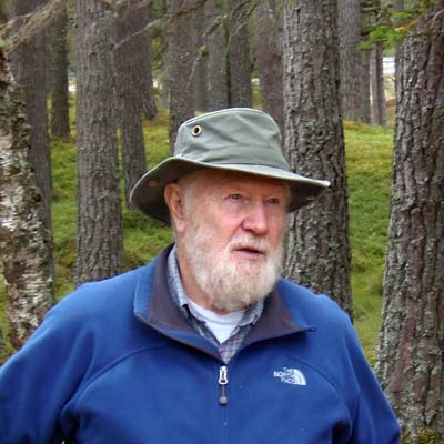 Dick Balharry at Linn of Dee on Mar Lodge Estate in October 2013